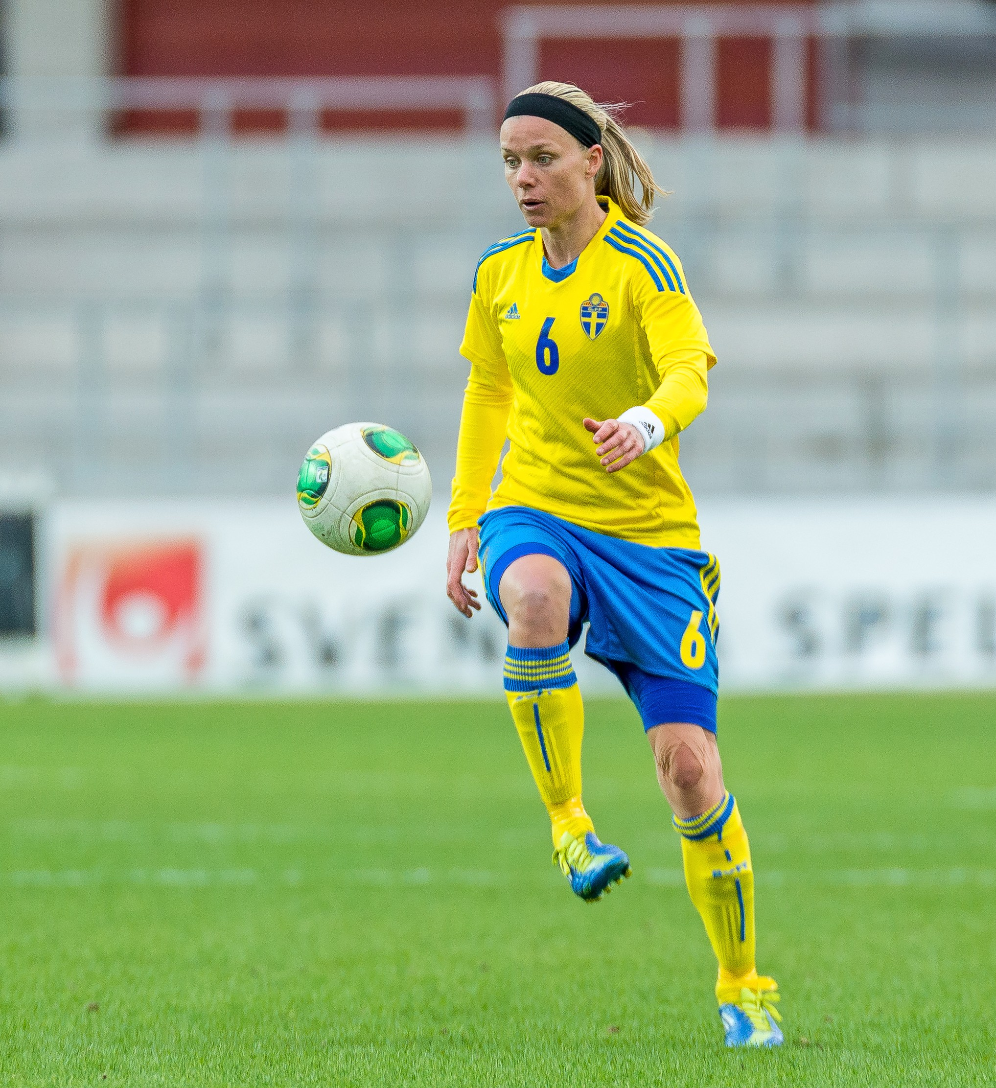 Swedish left back Sara Thunebro playing for the Swedish Women's National team in the 2-0 victory over Iceland at Myresjöhus Arena, 6 April 2013.